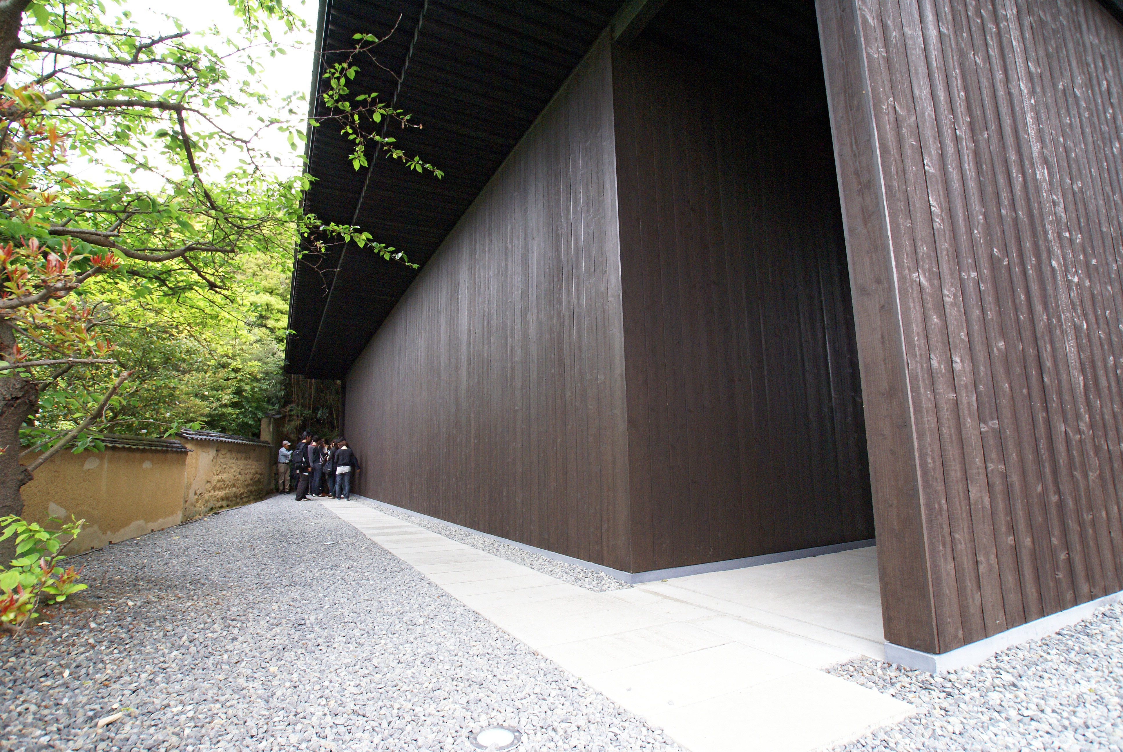 Art house project Minami-dera (南寺、直島 家プロジェクト) in Naoshima, Kagawa prefecture, Japan